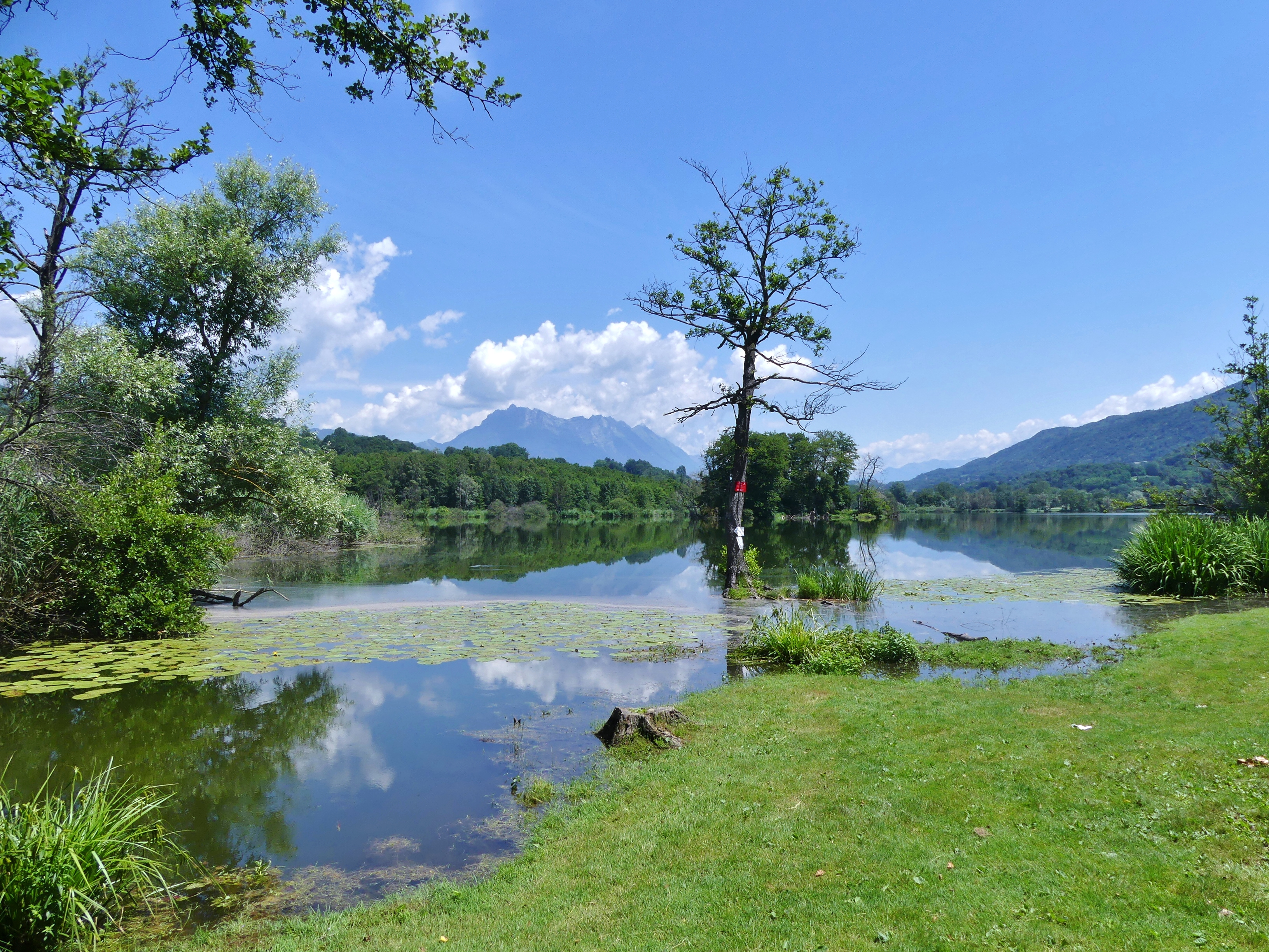 Sight of Sainte-Hélène lake, with Arclusaz mountain visible at the background, in Savoie, France.